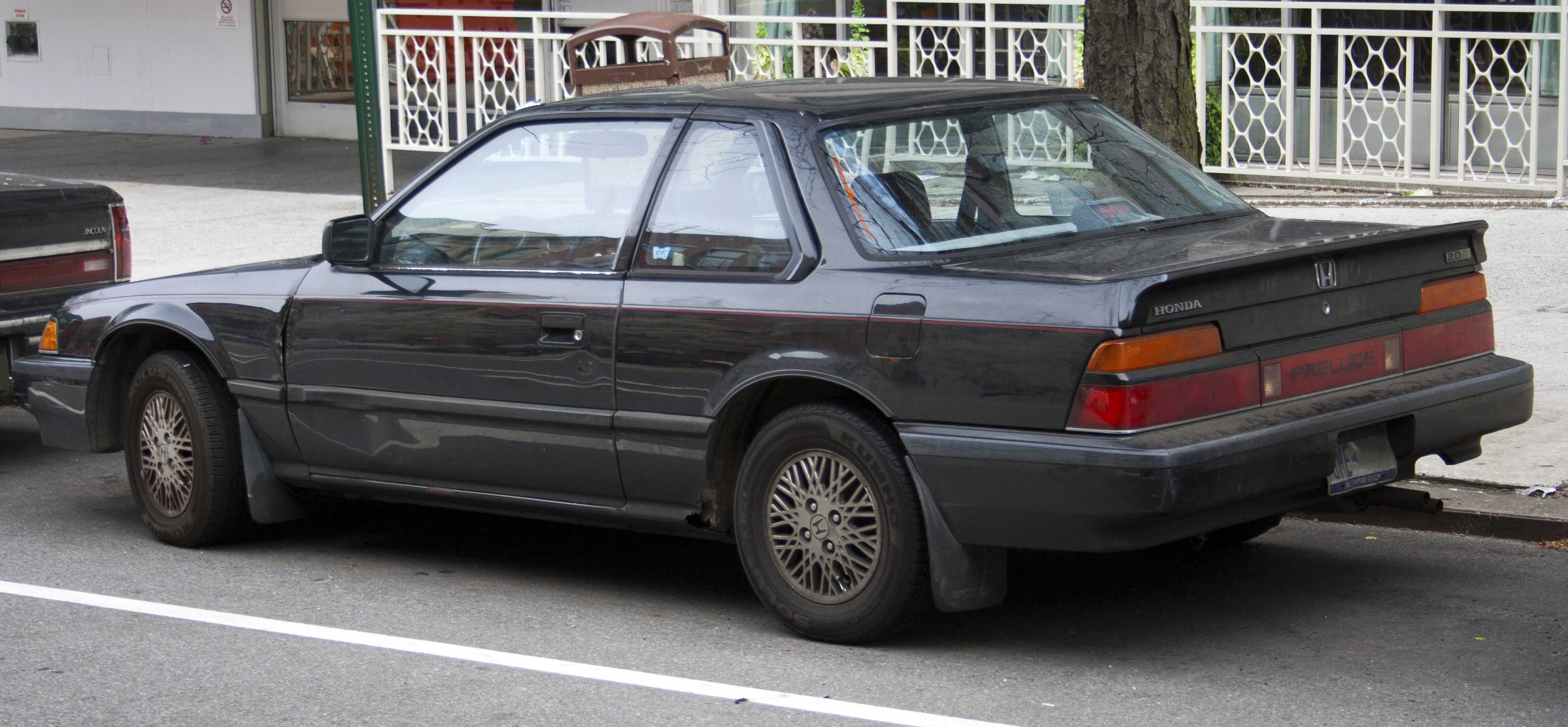 1986 Honda Prelude 2.0Si